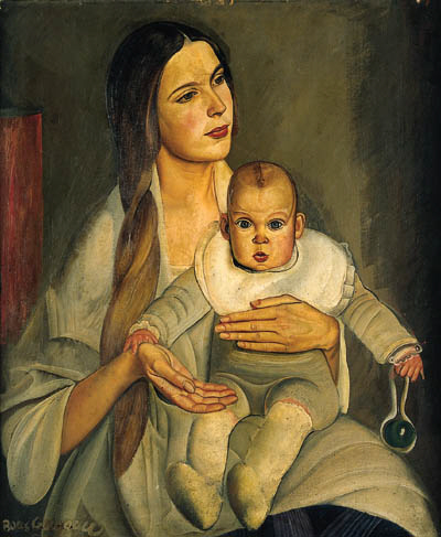 Борис Дмитриевич Григорьев (1886-1939) «Материнство (портрет Н.Пешковой)» Boris Dmitrievich Grigor'ev (1886-1939) Motherhood signed 'Boris Grigoriev' (lower left), label on stretcher inscribed 'Boris Grigoriev, 11 rue des Sablons, Portrait de la belle-fille de Maxim Gorki' oil on canvas 30¼ x 24 7/8in. (77 x 63.2cm.)